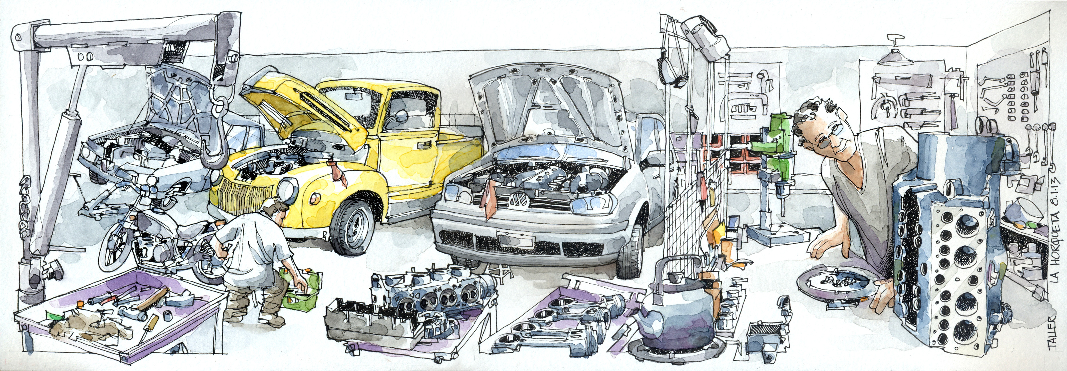 An auto repair shop and some cars in Buenos Aires.